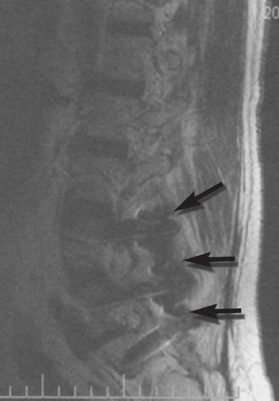 MRI with metal artifacts. For context, see: MRI artifact